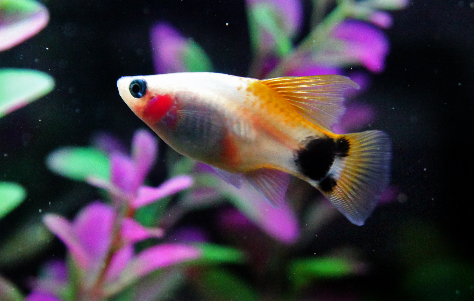 Xiphophorus maculatus, gold crescent, red wag var.